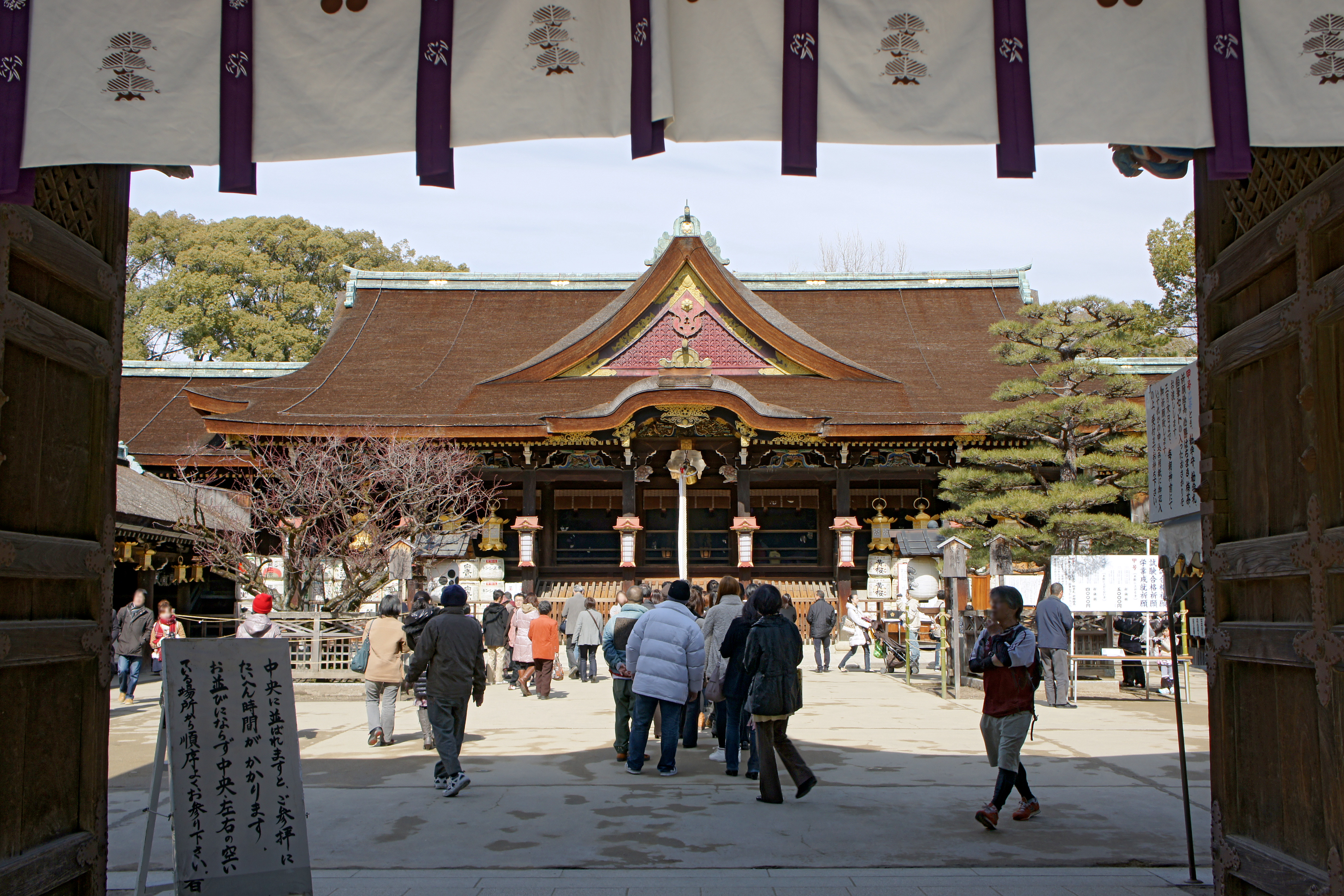 Kitano Tenman-gū in Kamigyō-ku, Kyoto, Kyoto Prefecture, Japan